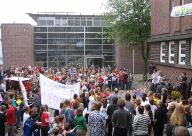 Annexe of Freiherr vom Stein Gymnasium, Luenen, Germany. Photograph taken in July, 2004 by Artur Weinhold